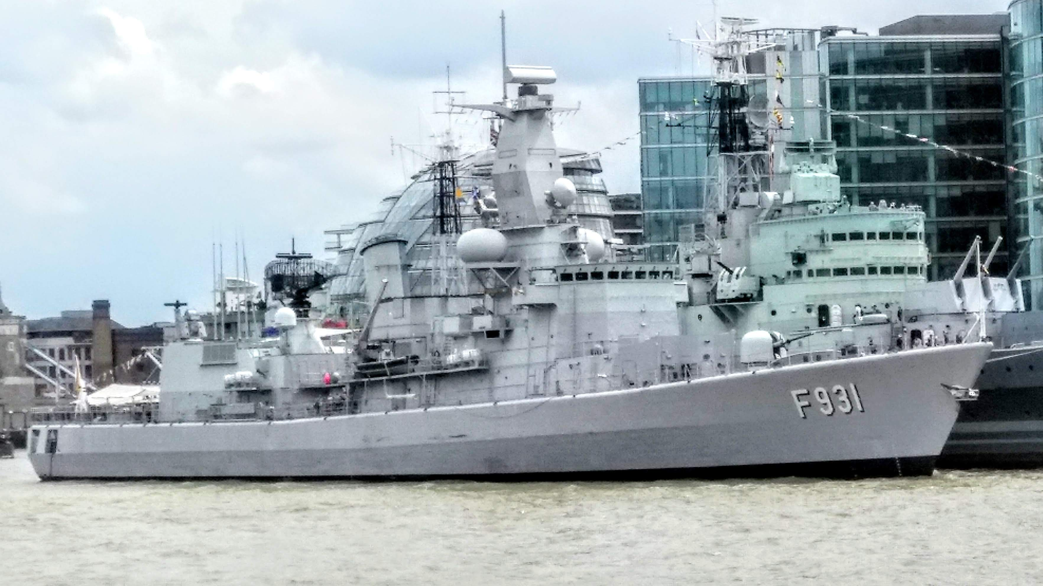 The Belgian frigate Louise-Marie (F931) on a port visit to London in 2019